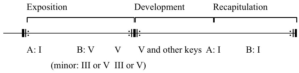 Simplest sonata form pattern related to binary form. After ISBN 0-13-033233-X.